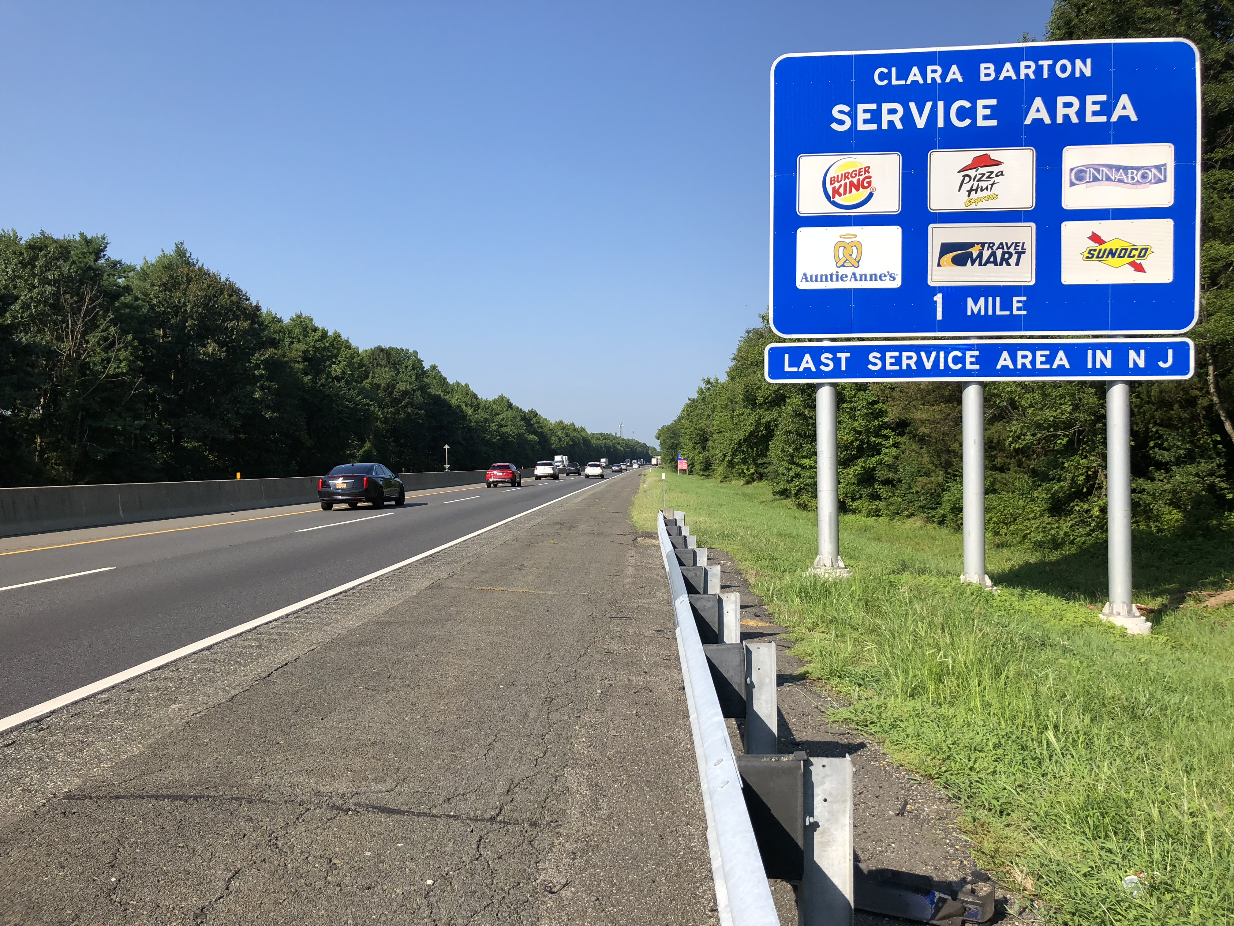 View south along New Jersey State Route 700 (New Jersey Turnpike) just north of the Clara Barton Service Area in Oldmans Township, Salem County, New Jersey